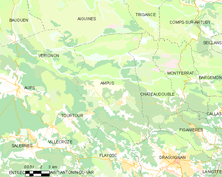 Map of French municipality Ampus